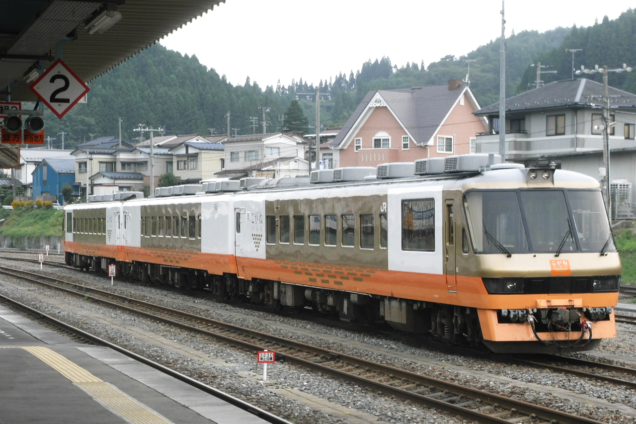 The JR East Kiha 59 series Kogane trainset stabled at Kesennuma Station